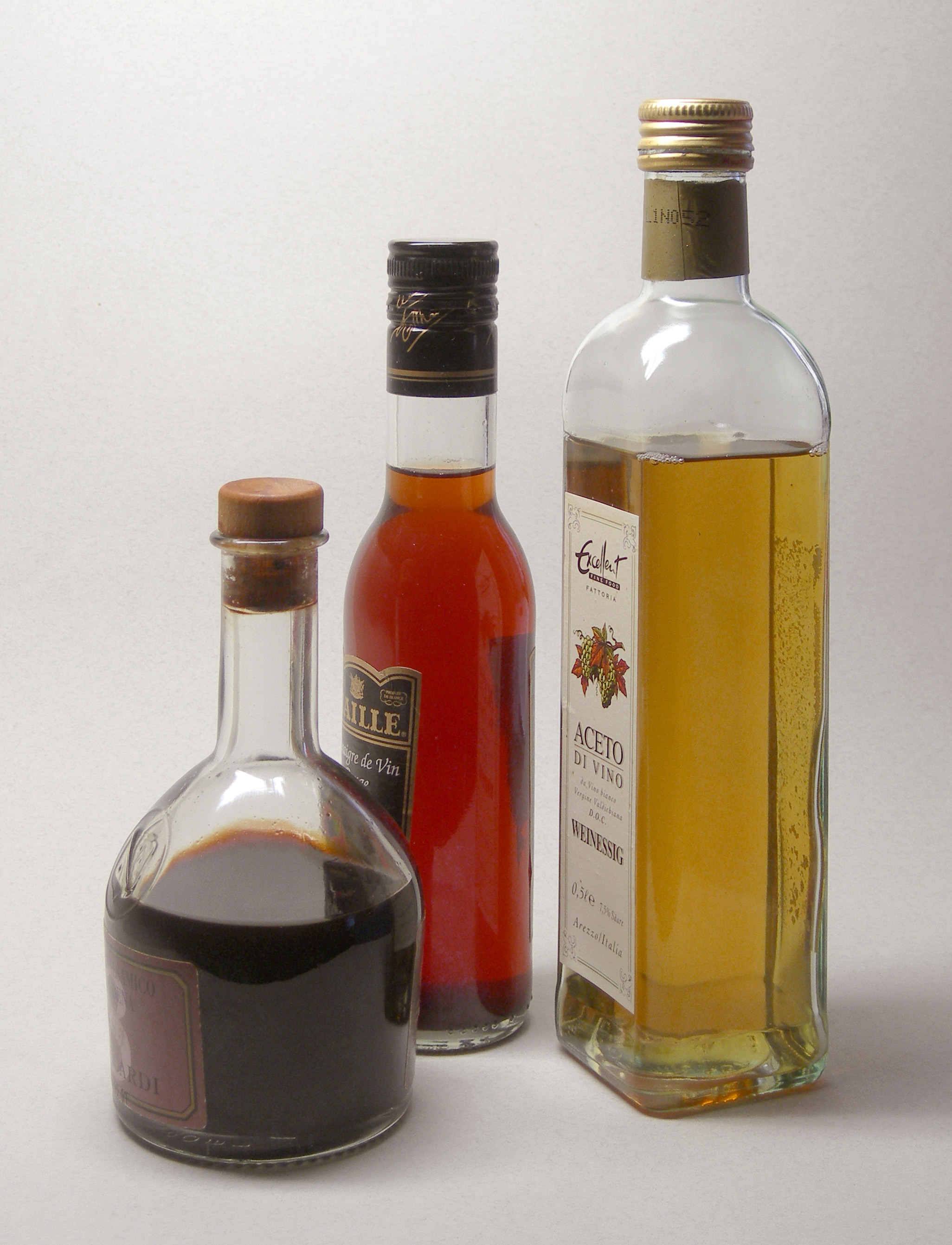 Vinegar: Aceto balsamico, red and white wine vinegar. Own work.